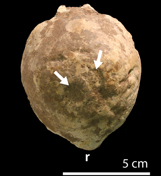 AMNH 0044, Sphaerotholus buchholtzae, in dorsal view with arrows denoting dorsal lesions